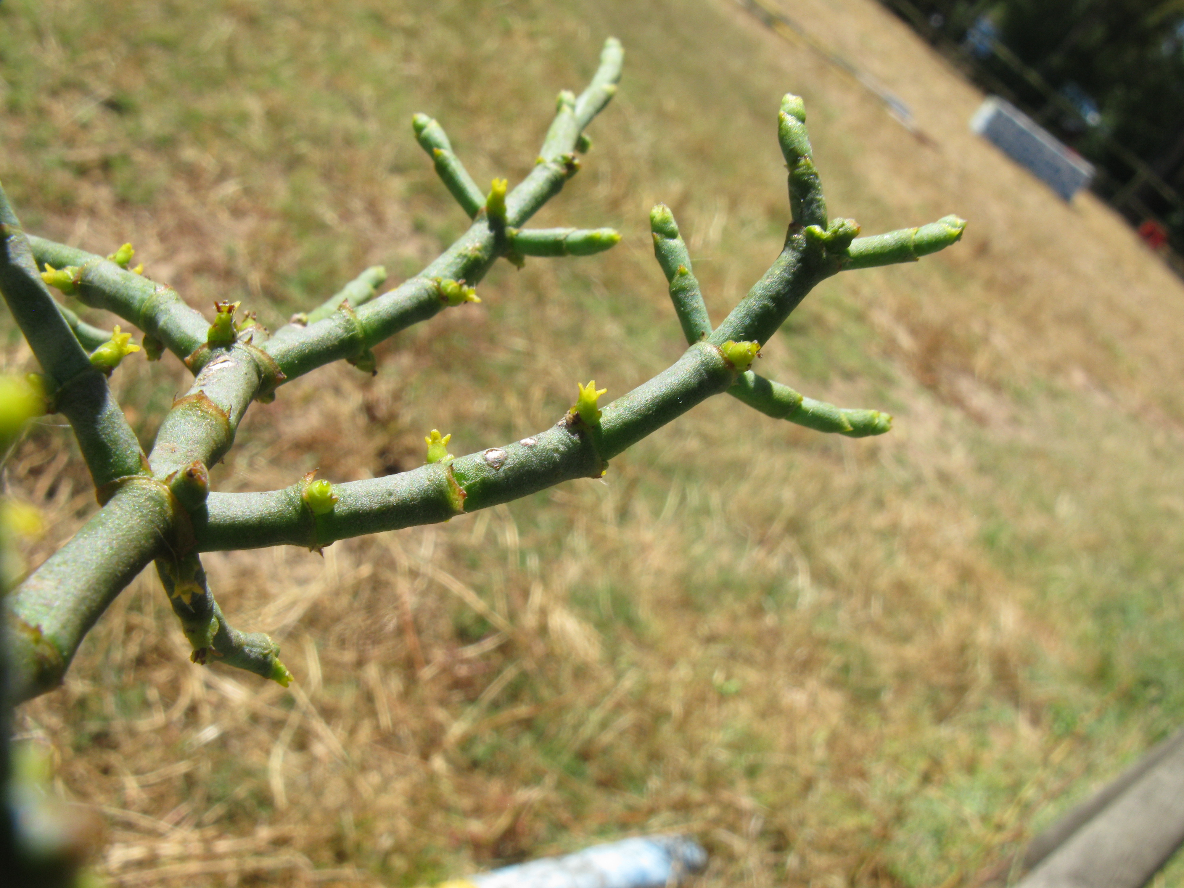 Viscum capense is a South African mistletoe with vestigial leaves and with branches that sprout largely at right angles, creating a dense bush that is ecologically important in its region. Its berries are important forage for a number of species of birds.